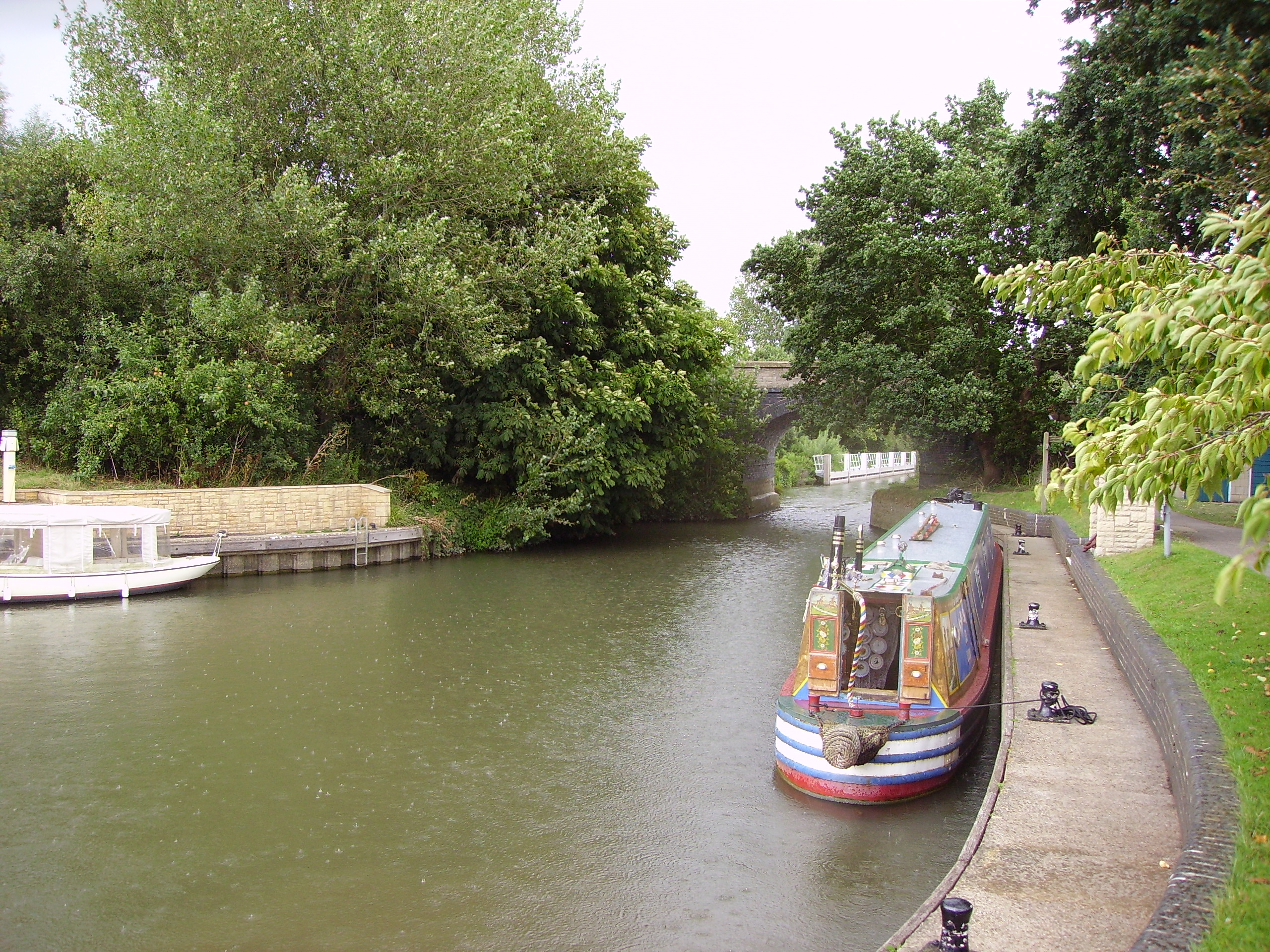 St John's Bridge over the River Thames at Lechlade, Gloucestershire